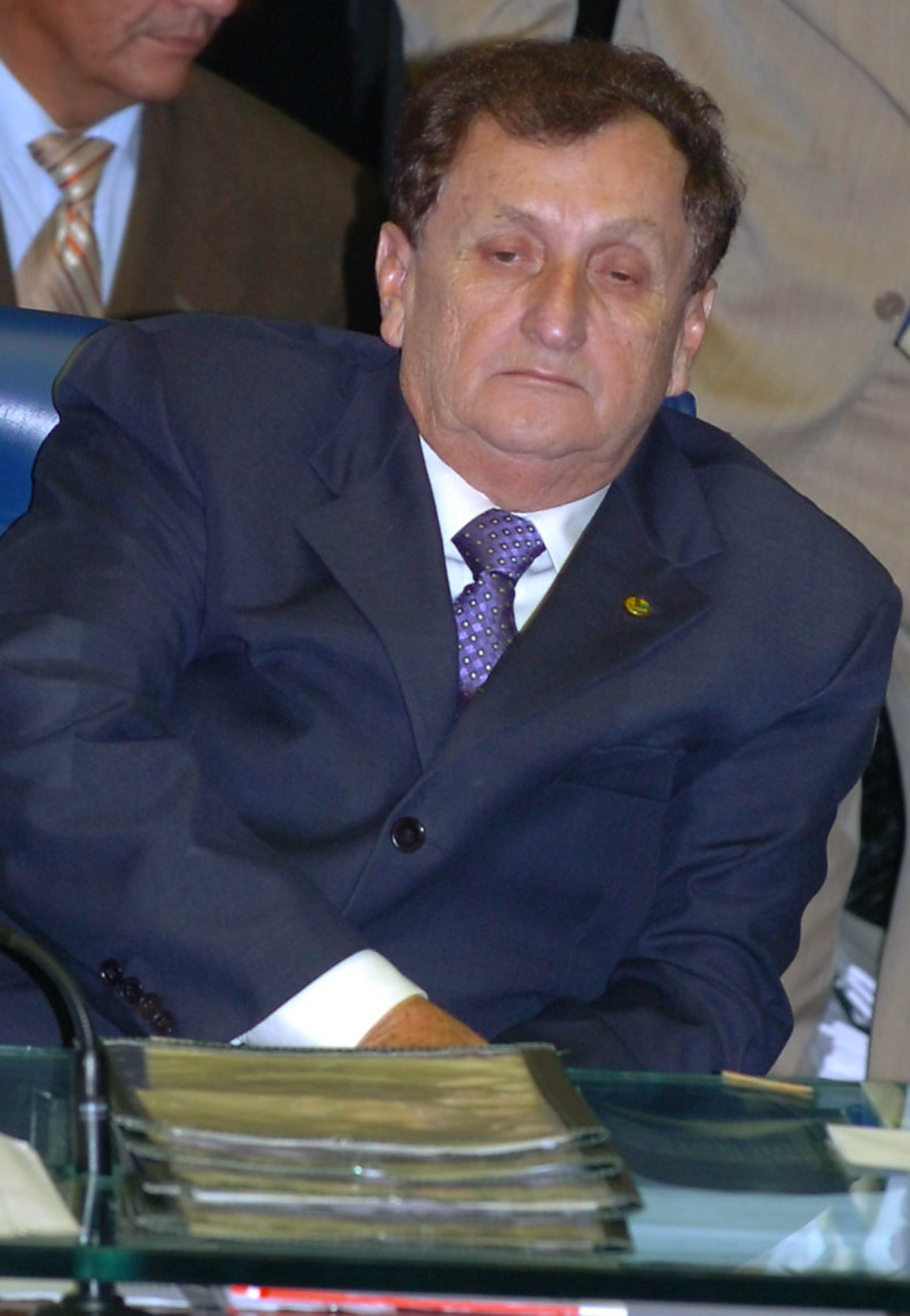 Francisco de Assis de Moraes Souza (Mão Santa) a brazilian politician.